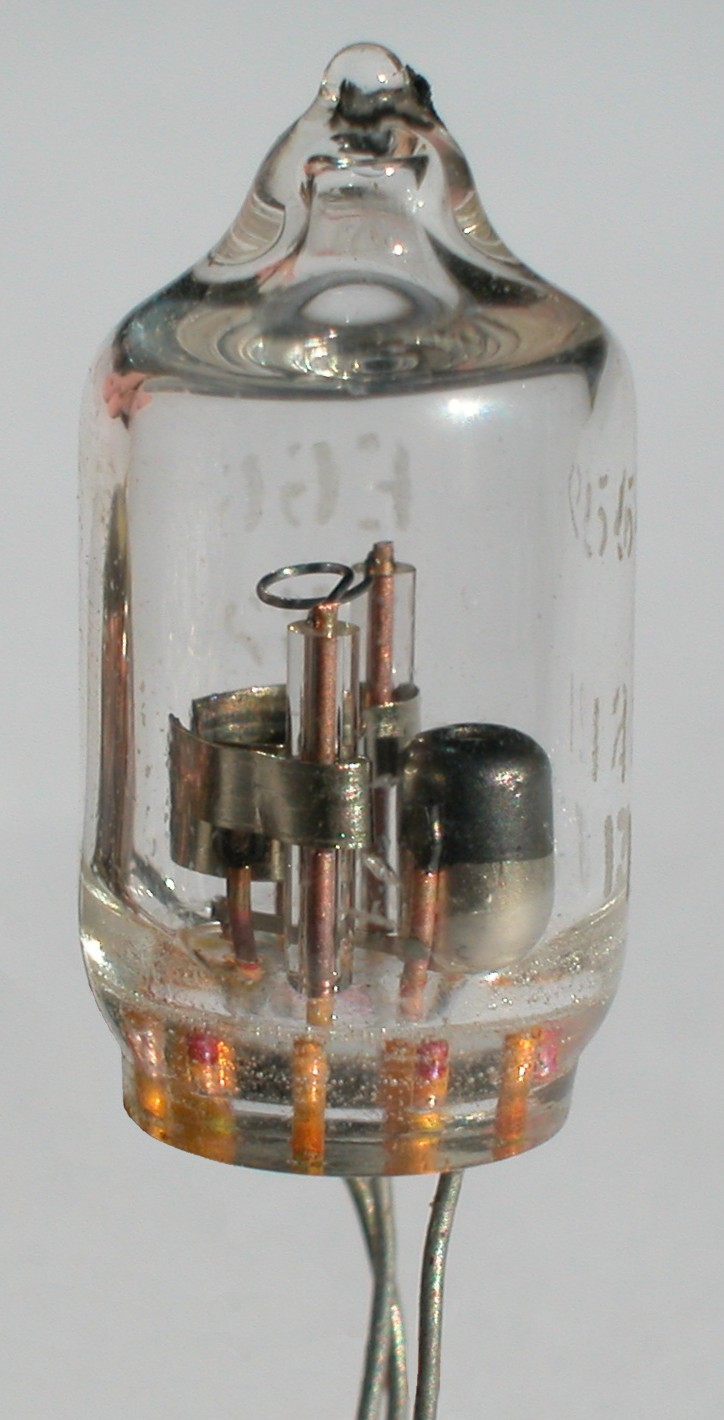 KN2 Krytron switch tube made by EG&G, used for fast high-voltage, high-current switching. Its best-known use is in the trigger circuits of nuclear weapons.